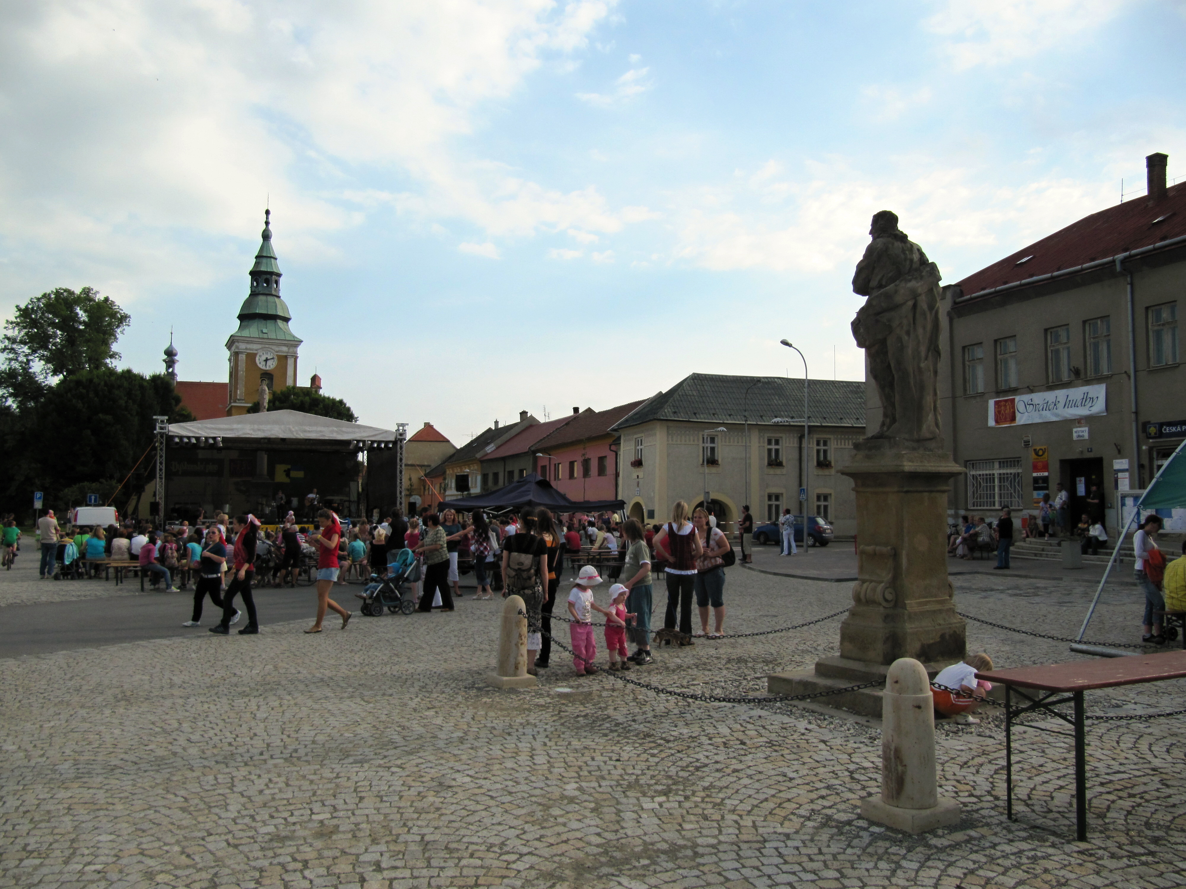 Němčice nad Hanou in Prostějov District, Czech Republic.Square.